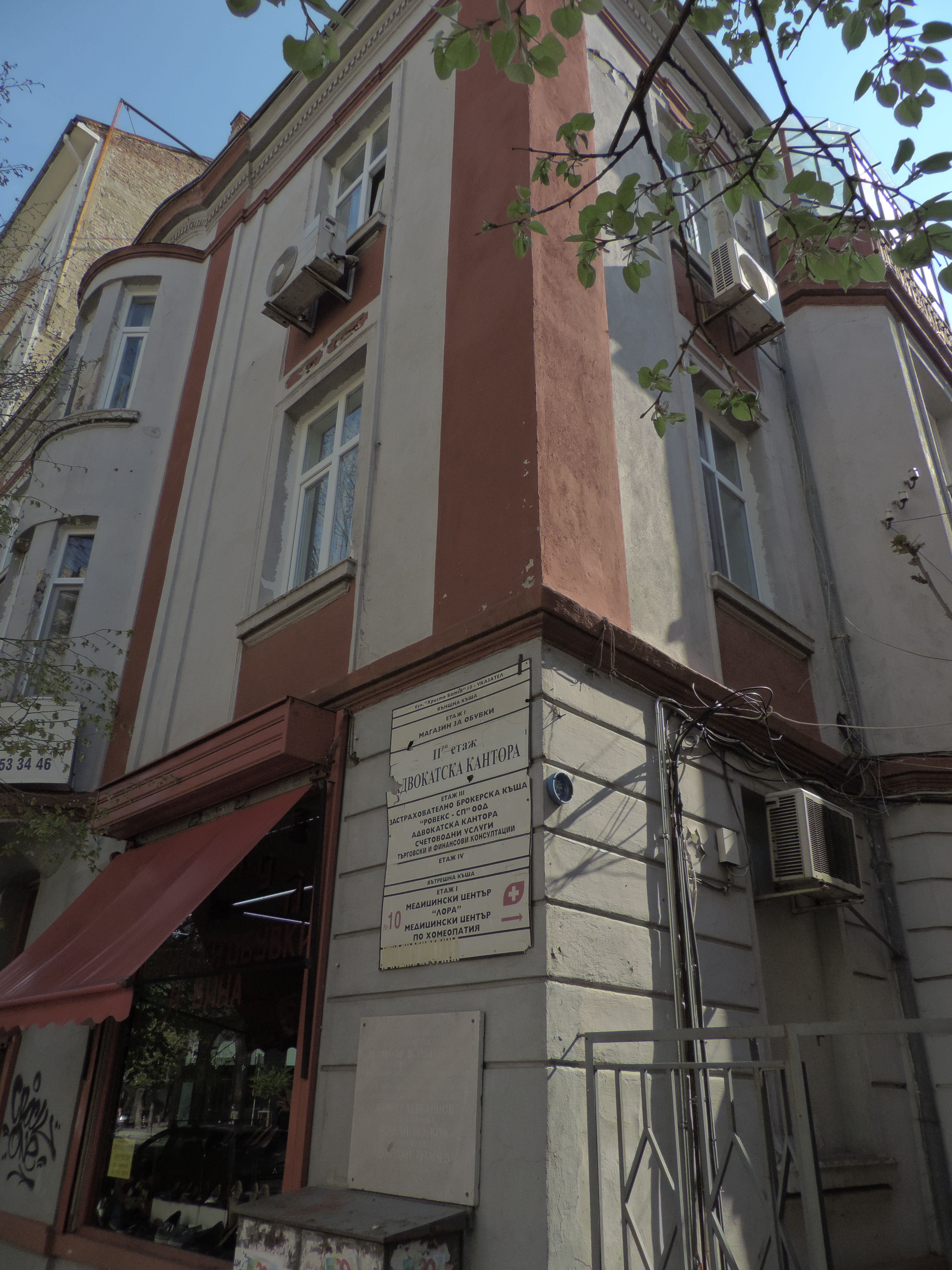 The house at 10 Hristo Botev Str, Sofia, where the Bulgarian writer Dimitar Podvarzachov lived from 1912 to 1927. Also, in different periods of time there lived the writers: Dimcho Debelyanov (1914-1916) Yordan Yovkov (1916-1917) Nikolay Liliev (1917-1923)